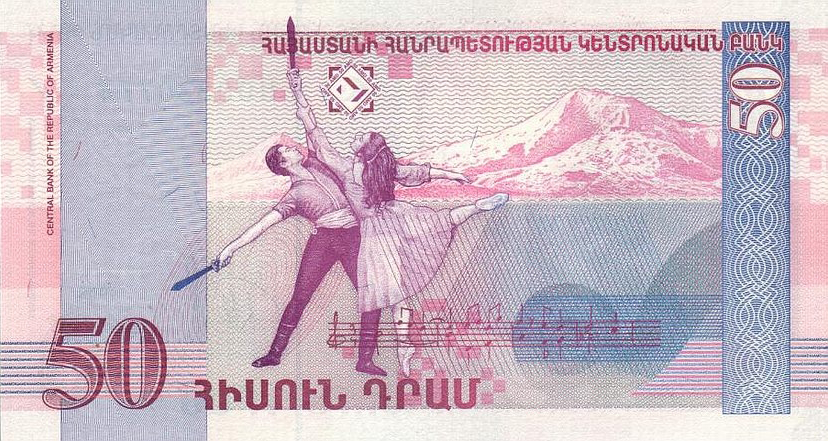 50 dram 1998